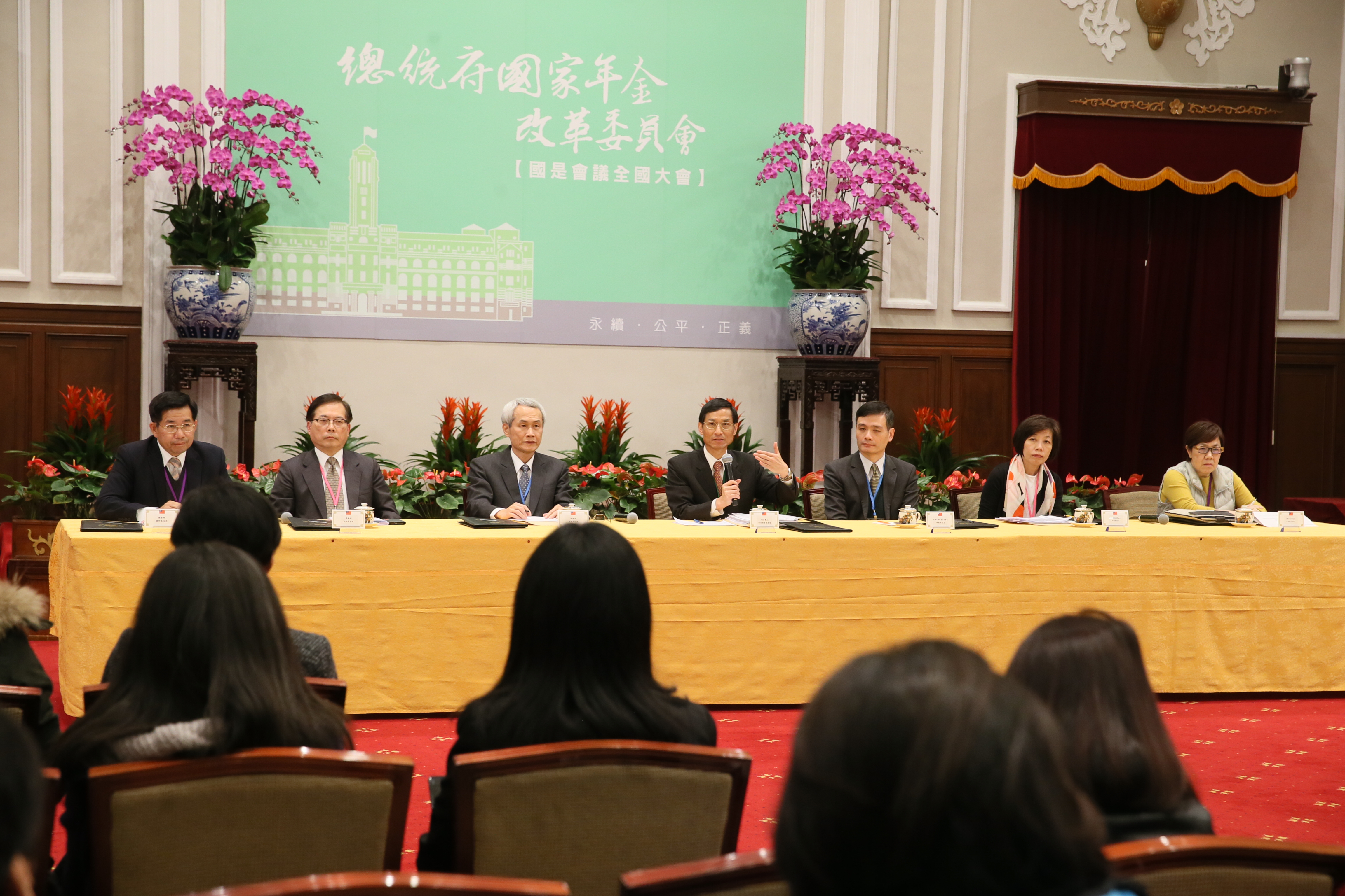 授權方式及範圍：中華民國總統府│政府網站資料開放宣告 Authorization Method & Scope: Office of the President, Republic of China (Taiwan) | Government Website Open Information Announcement